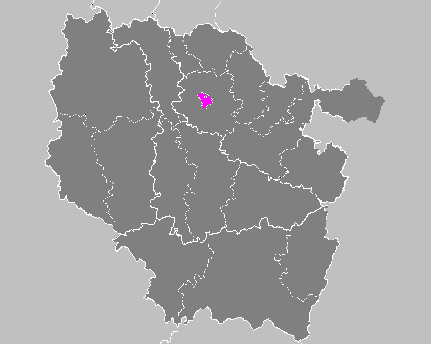 Maps of arrondissements and cantons of France: Arrondissement de Metz-Ville.PNG